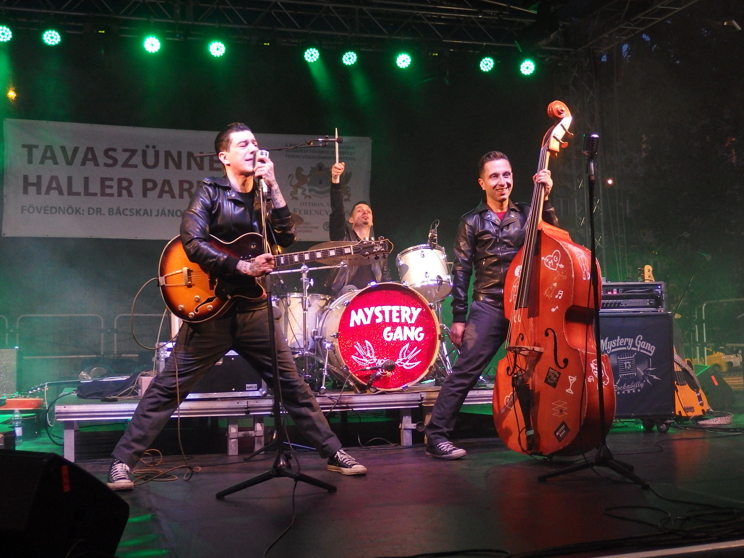 Mystery Gang, Hungarian rockabilly band